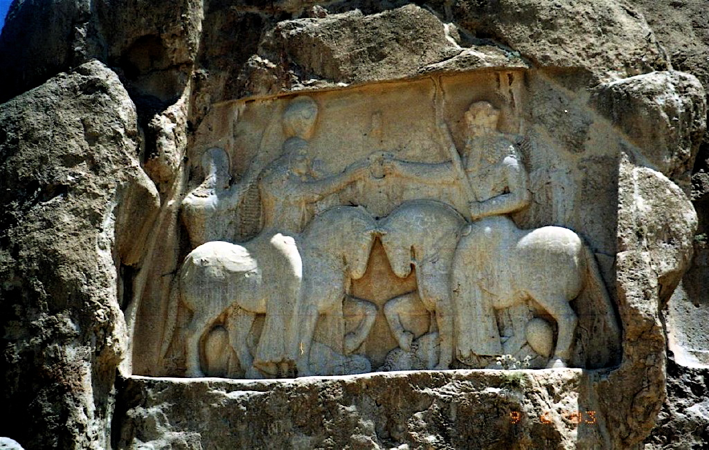 A Sasanian Frieze in Naqt-e Rostam (iran). King Ardeshir I crowned by Ahura Mazda (right). The figure standing behind the king is probably the successor, his son Shapur I (crowned 241 CE)